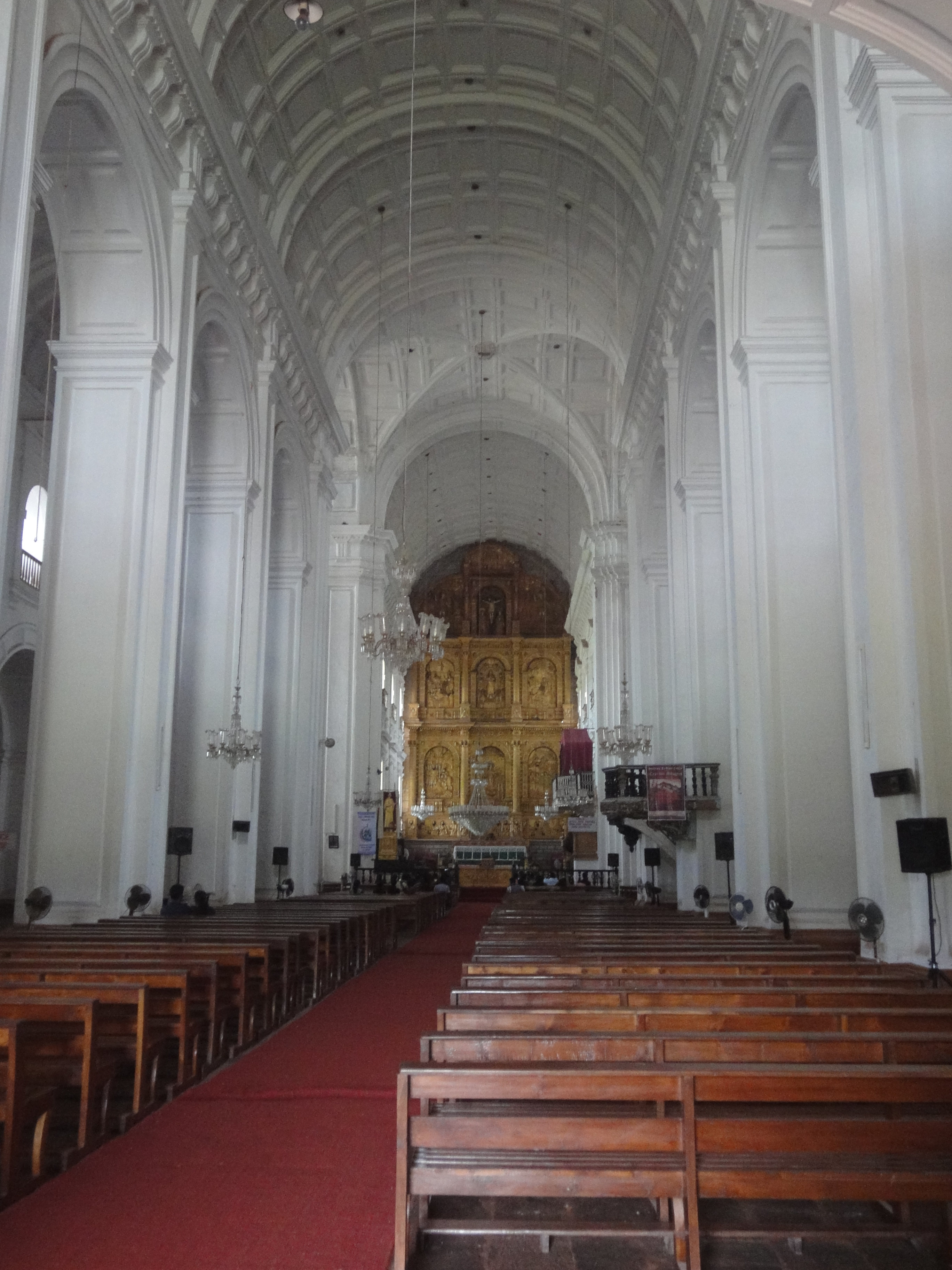 Se’ Cathedral